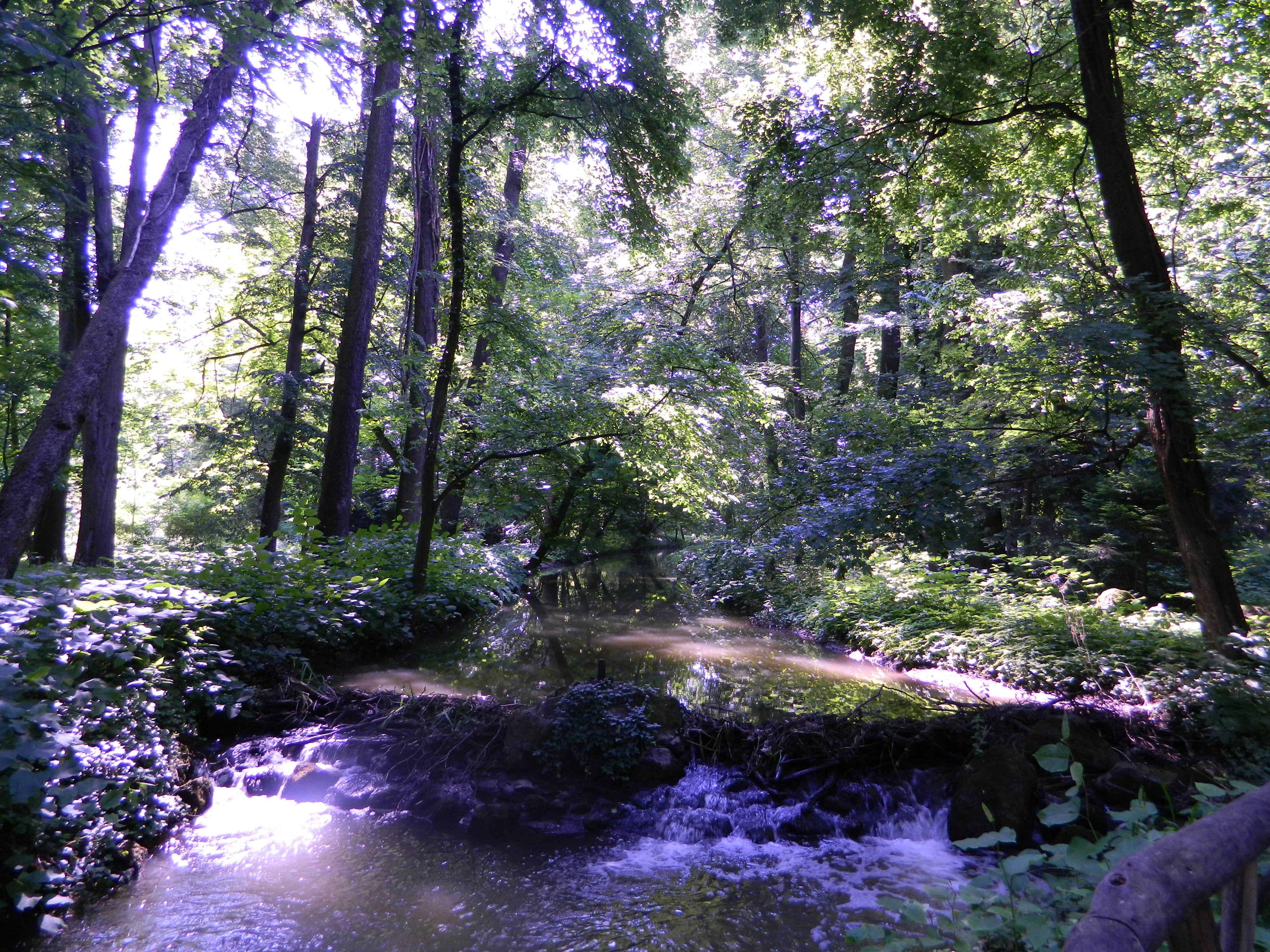 Landscape with Szödrákosi-patak in the Botanical Garden in Vácrátót